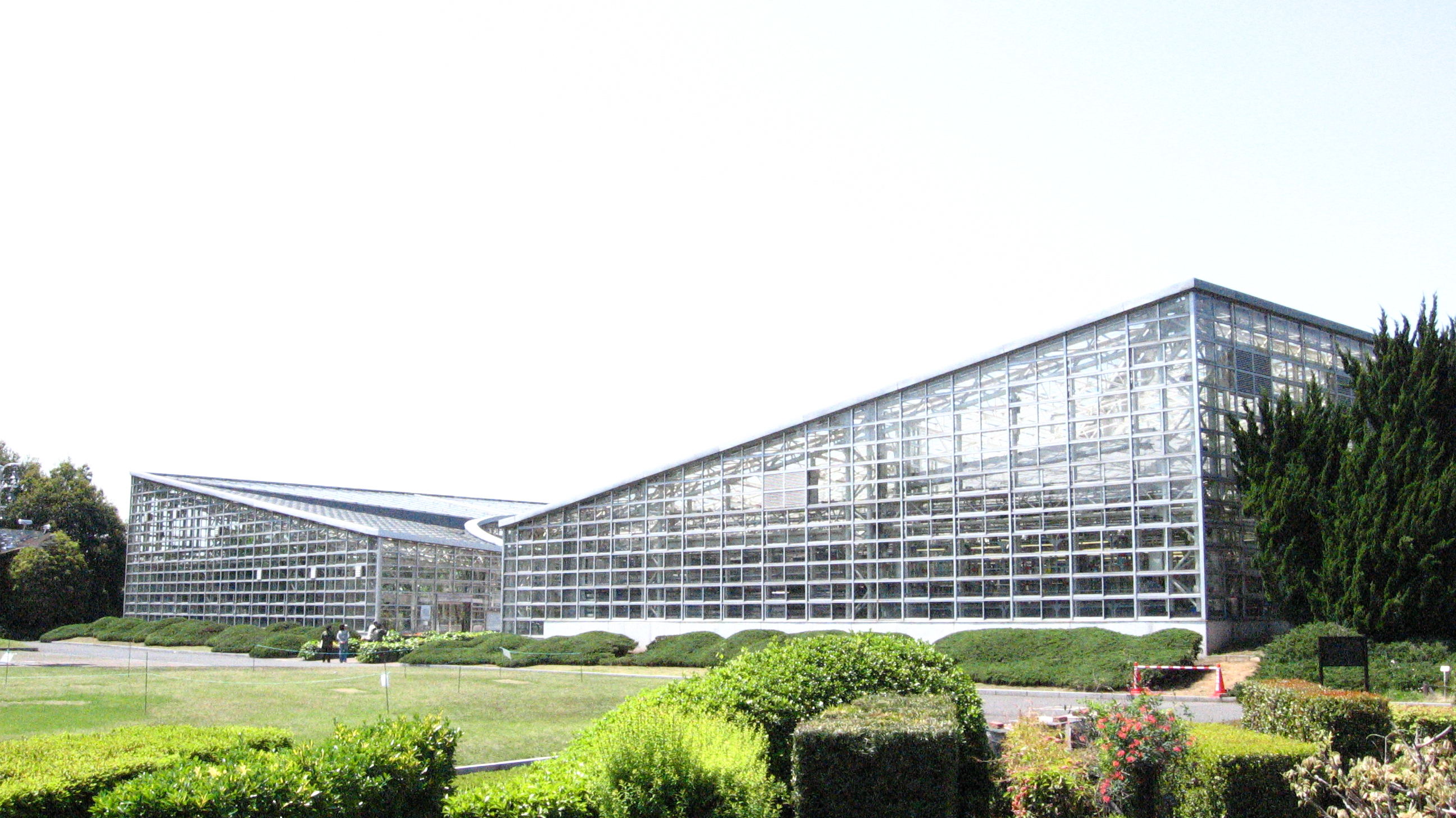 Jindai Plants Park from Chofu, Tokyo.